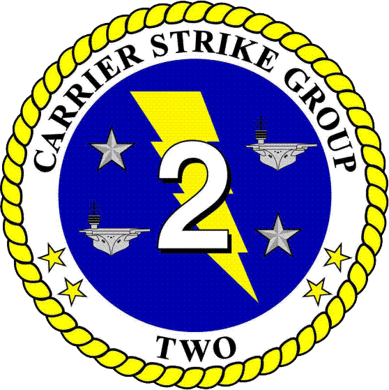 U.S. Navy Carrier Strike Group Two logo.